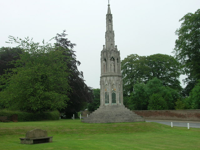 Eleanor Cross Copy, Sledmere, East Riding of Yorkshire, England.